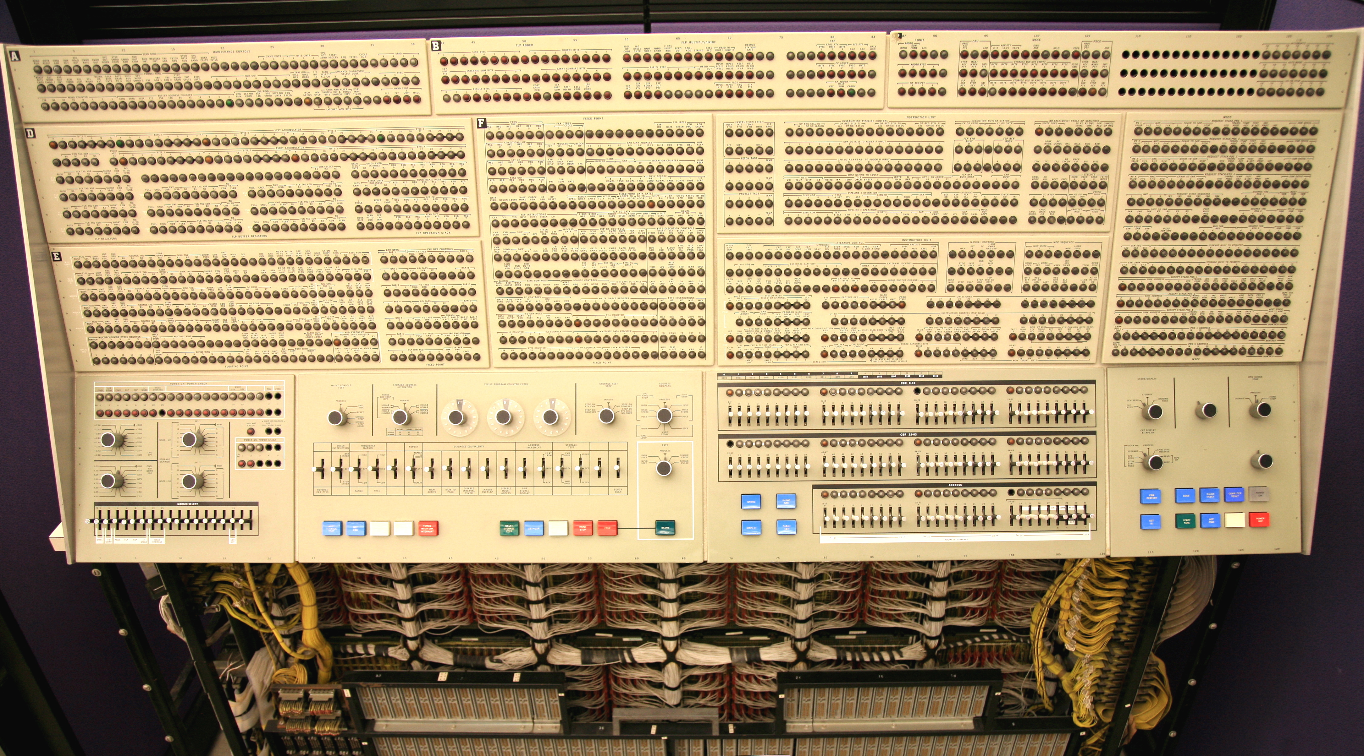 This IBM System/360 Model 91 was a scientific computer used at SLAC in 1968. It used Solid Logic Technology (modules of five to six transistors) during the transition period between discrete transistors and the IC.